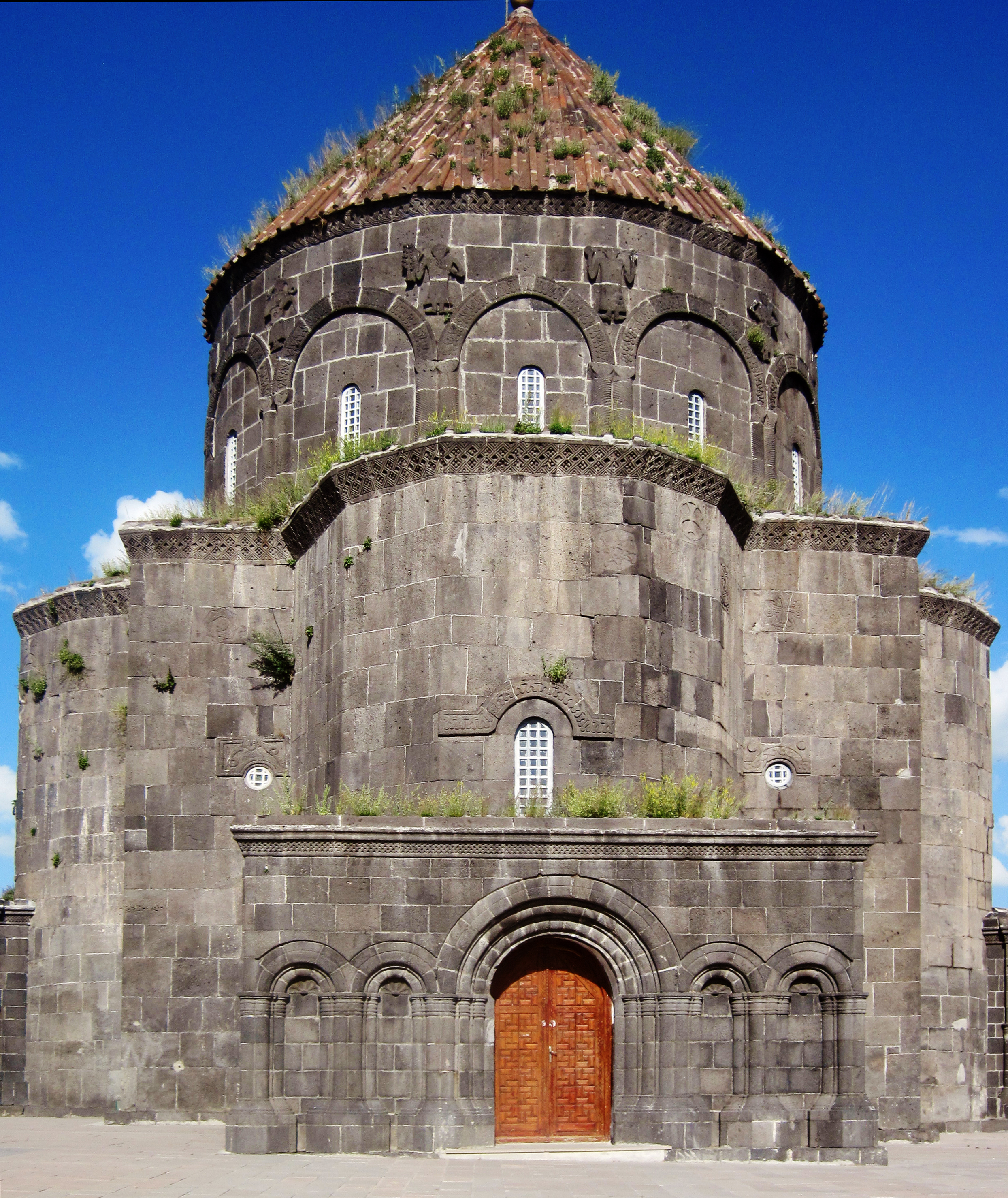 Cathedral of Kars is a former Armenian church in eastern Turkey